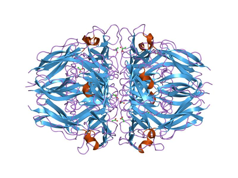 Cartoon representation of the molecular structure of protein registered with 1li1 code.